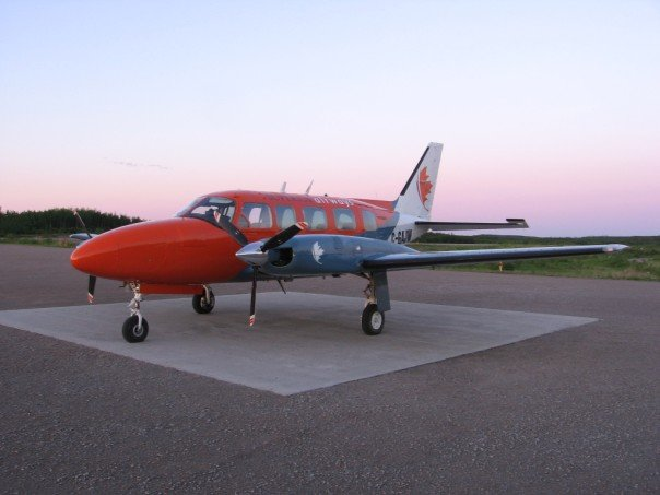 My picture taken in 2006